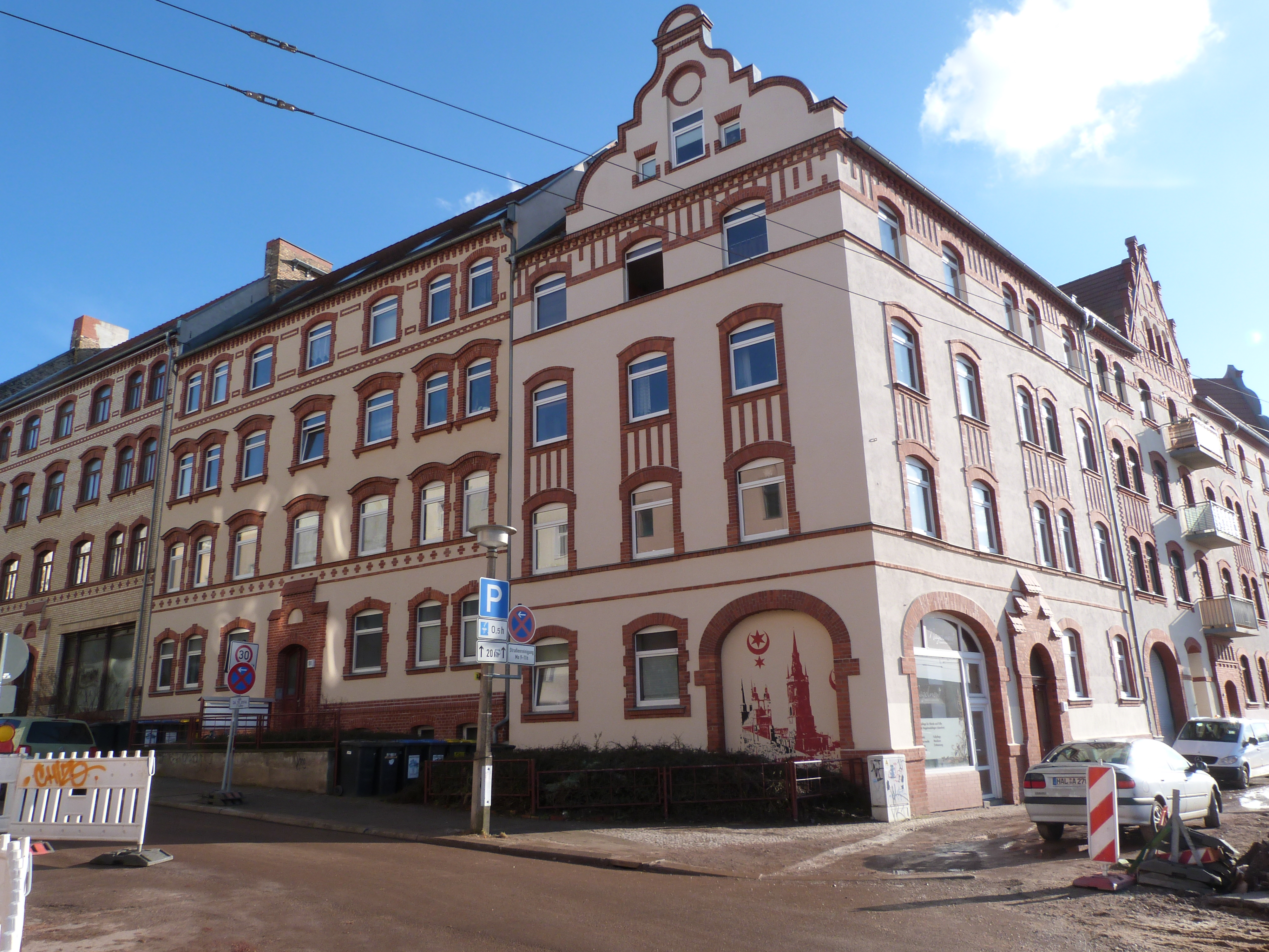 House group Böllberger Weg 19 and 20, Ludwigstrasse No. 44-51, Halle (Saale)